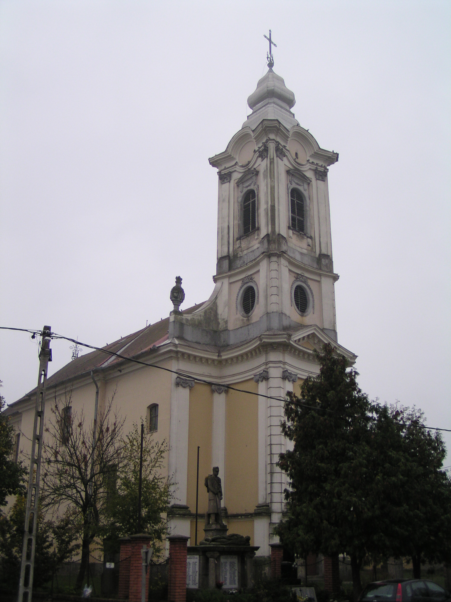 Catholic church in Kömlő (Hungary)